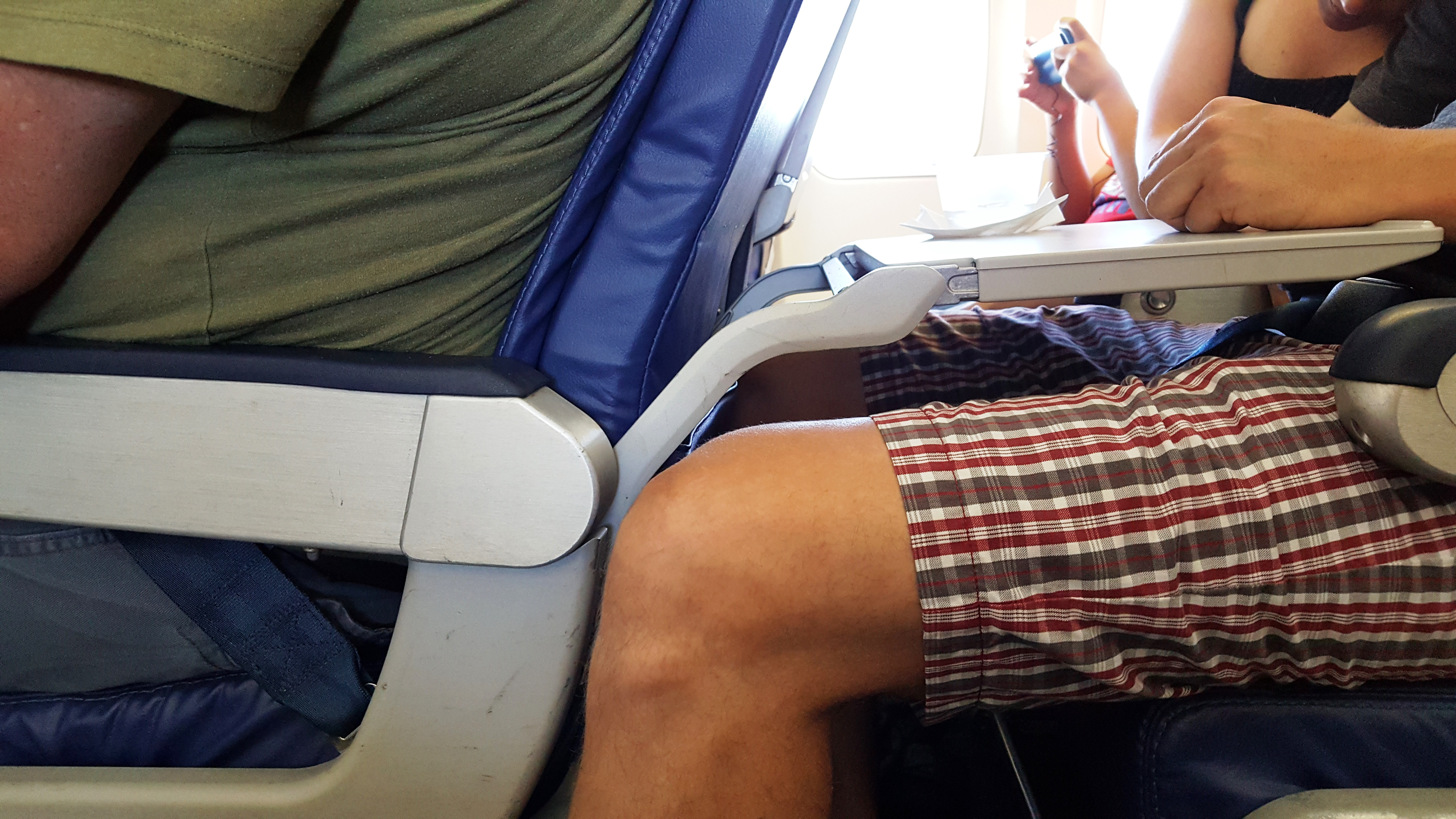 sitting in an economy class seat